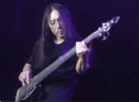 John Myung in concert.